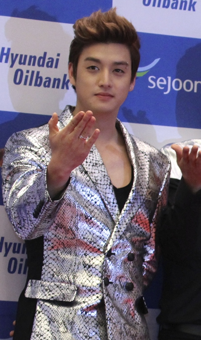 Group photo of U-Kiss taken at the press conference for Dream Concert 2013. Taken and shared by K-Soul Magazine for the U-Kiss information page.